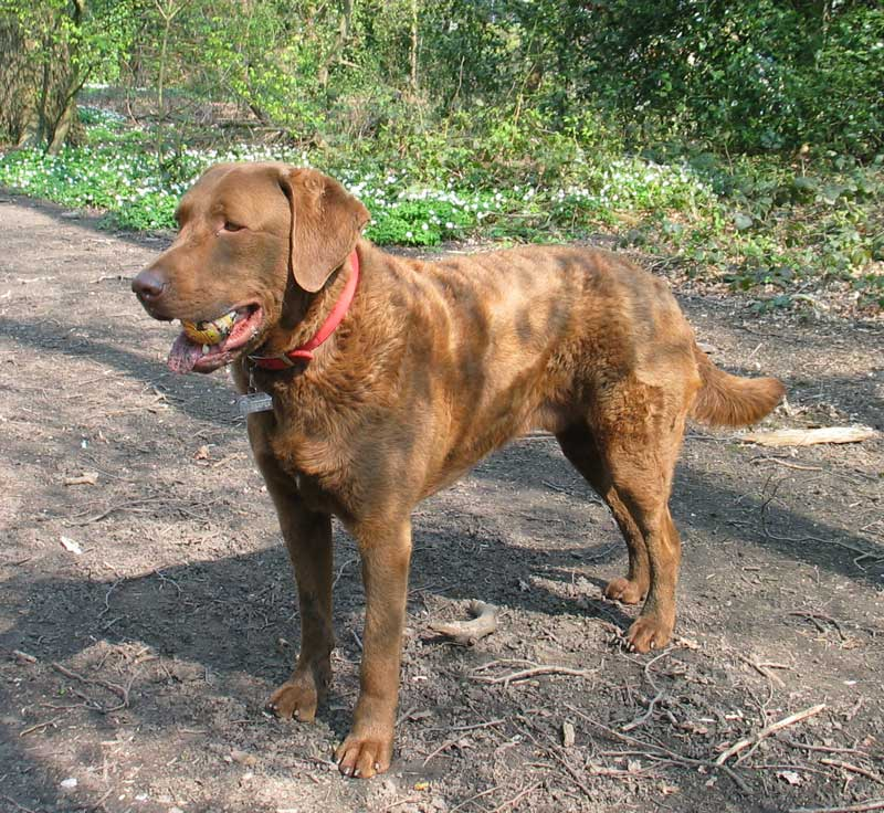 Chesapeaker Bay retriever Author: Nevilley Per User:Nevilley's user page, July '04: "All photos which I have uploaded to Wikipedia are hereby licensed under the GFDL. Please feel free to mark any photo of mine as GFDL" 21:51, 14 April 2003 . . Nevilley (Talk# . . 800x736 #136274 bytes) (Chesapeaker Bay retriever, large)